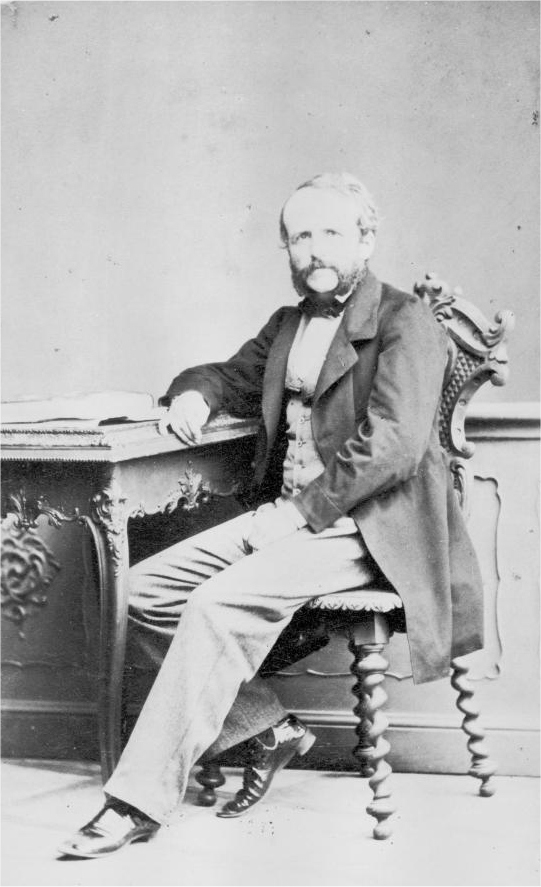 August Wilhelm Ambros ( November 17, 1816 – June 28, 1876) was an Austrian composer and music historian of Czech descent. (The first version of this summary was created using Commons SumItUp)